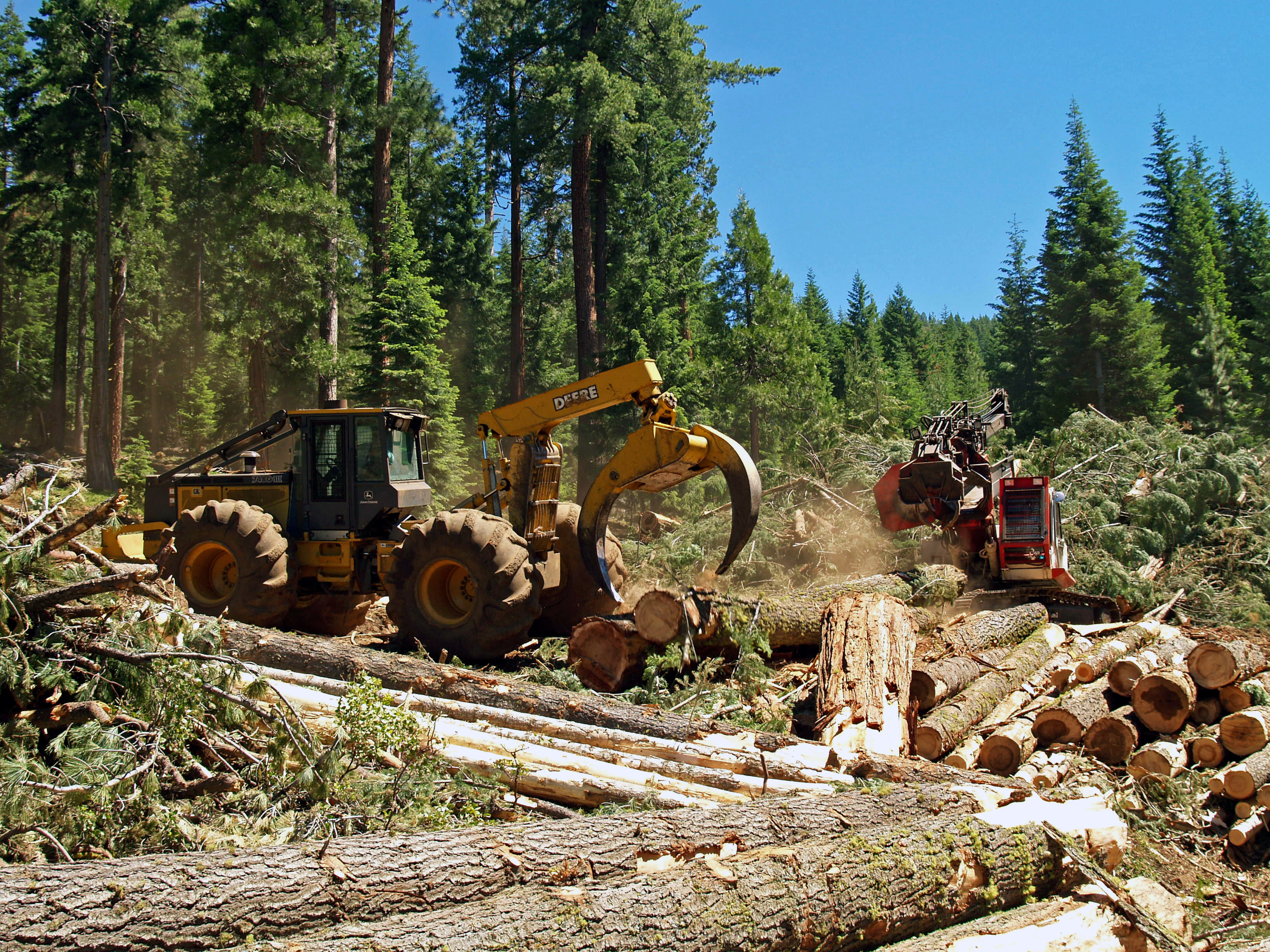 The BLM manages 2.4 million acres of forests and woodlands in western Oregon - which includes 2.2 million acres of commercial forest and 200,000 acres of woodlands.